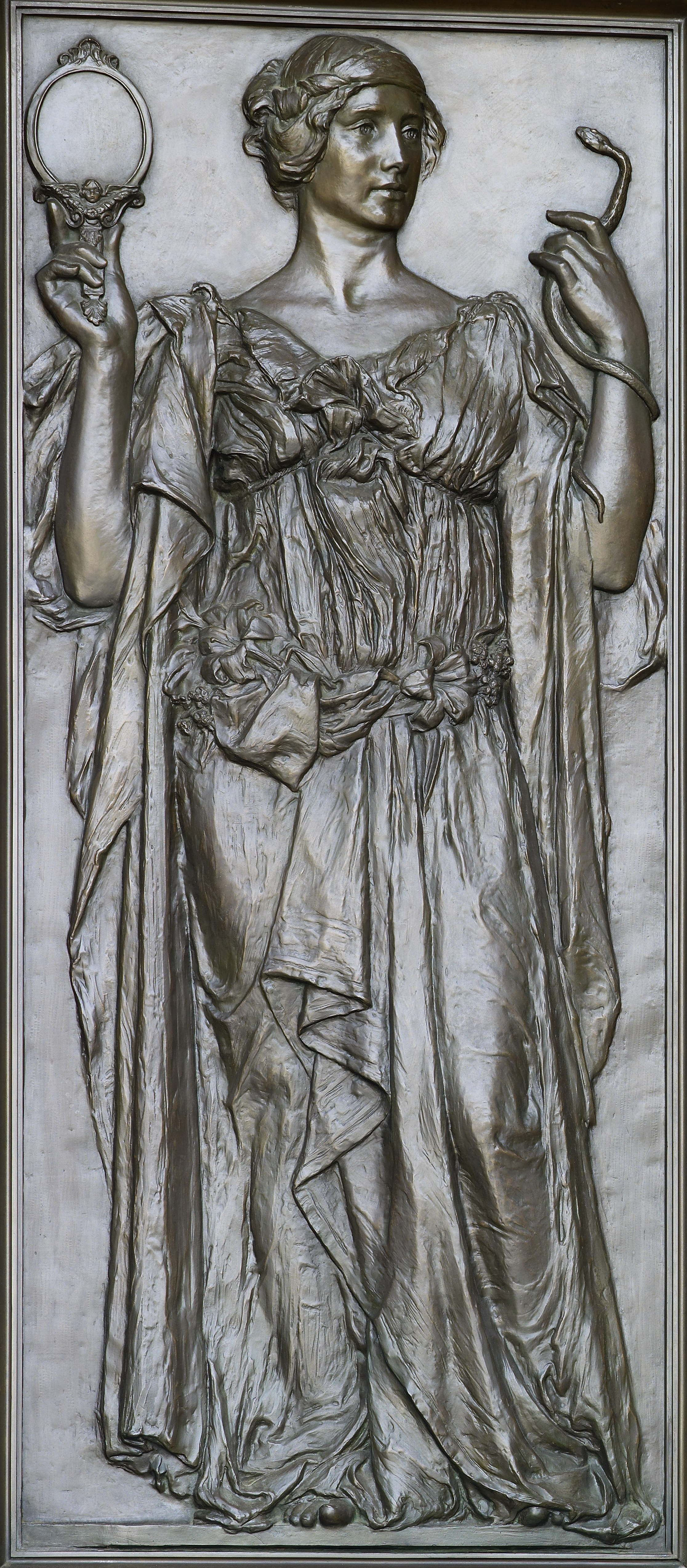 Truth (1896). Olin Warner (completed by Herbert Adams). Left bronze door at main entrance of the Library of Congress Thomas Jefferson Building.